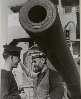 AWM caption : "1940-12-31. OFF BARDIA - TWO RATINGS OF H.M.S. "LADYBIRD" HAVE A YARN UNDER THE GUN DURING THE BOMBARDMENT OF BARDIA. (NEGATIVE BY D. PARER)." Comment : This shows the muzzle end of a BL 6 inch 50-calibre Mk XIII gun, originally mounted on HMS Agincourt (ex Rio de Janeiro).